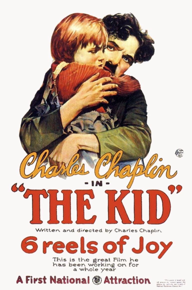 Publicity poster for Charlie Chaplin's 1921 movie The Kid. Charlie Chaplin and Jackie Coogan.